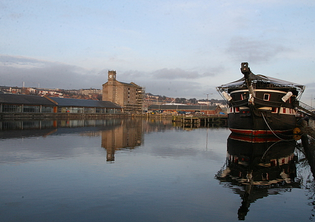 Victoria Docks